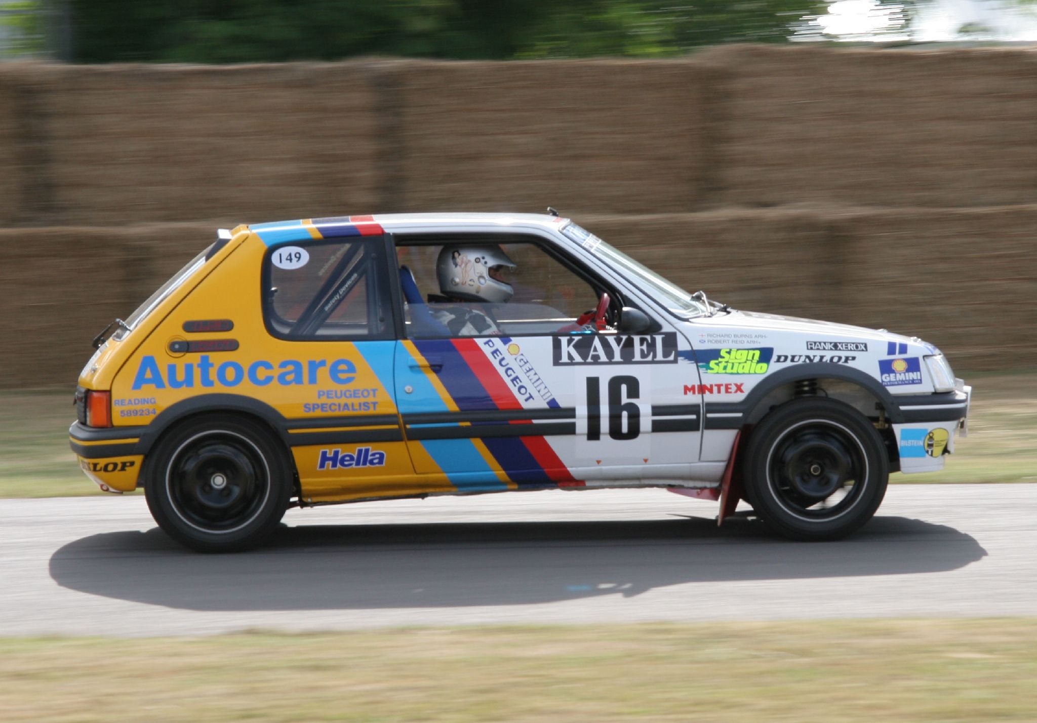 Peugeot 205 GTI Rally 'F347 BNG' (driven by Richard Burns in 1990 & 1991 Peugeot GTI Championship)